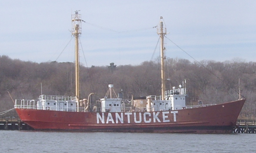 Nantucket Lightship